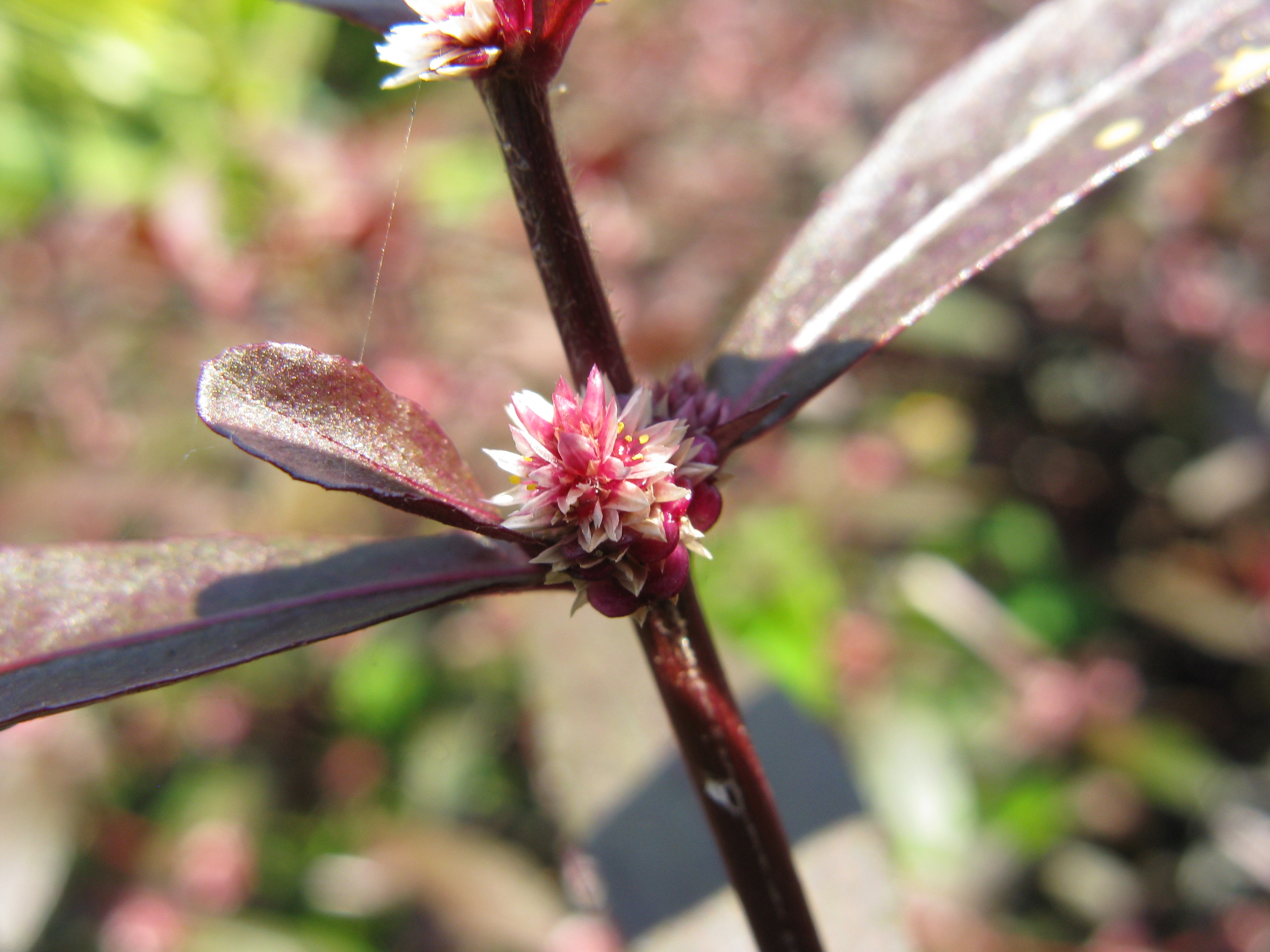 Scientific name Alternanthera polygonoides Place:Osaka,Japan